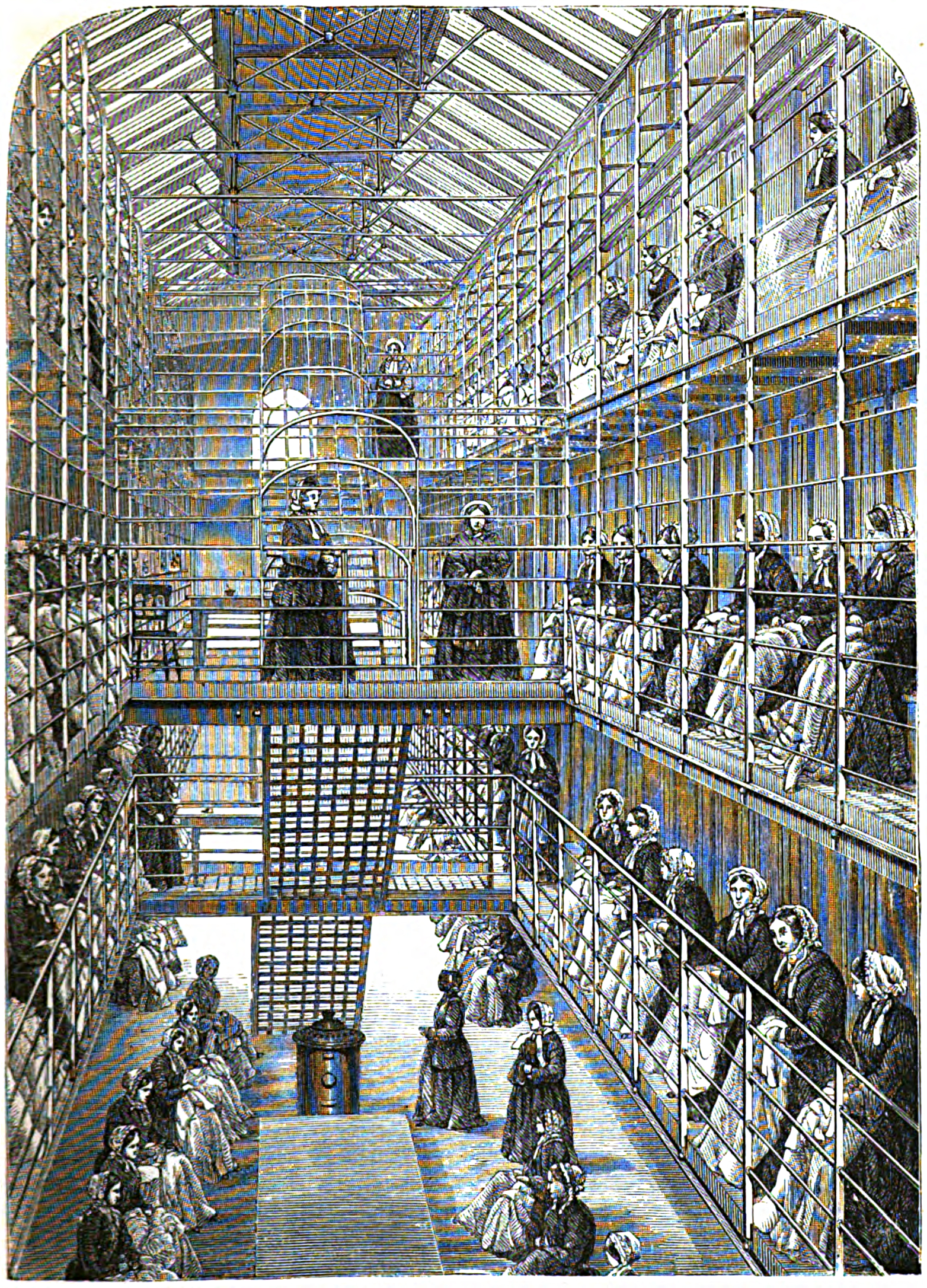 Brixton Women's Prison c. 1862 - showing the alternative to "hard labour" employed at male prisons, and not as arduous as the picking of oakum (tarred rope), as occurs at Newgate and other penal centres used in the earlier stages of a convict's penal reform.